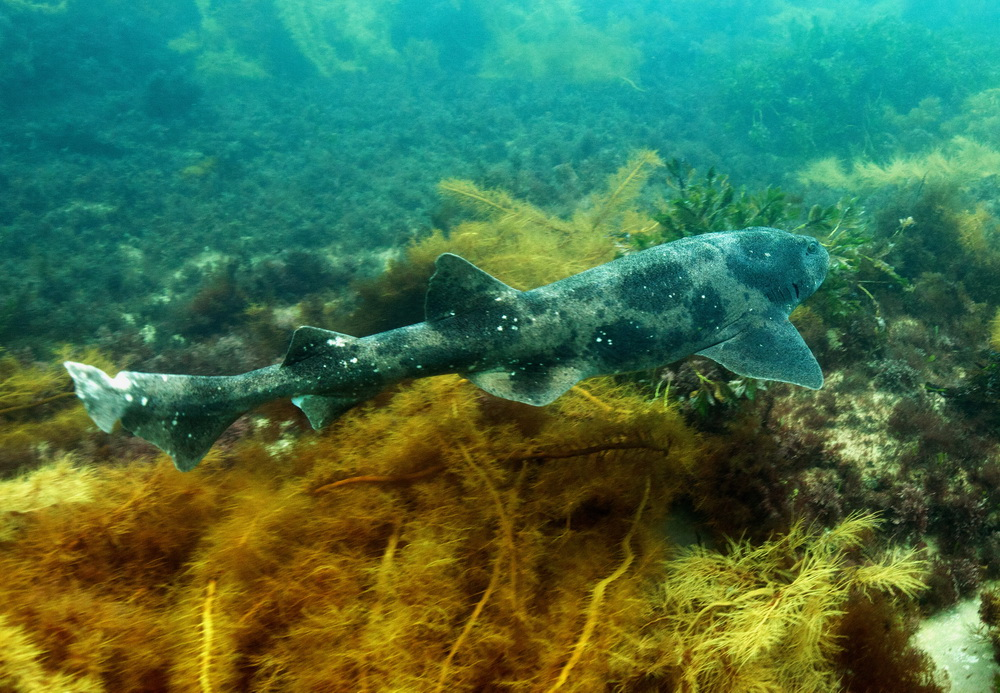 A Draughtboard Shark, Cephaloscyllium laticeps, at Shack Bay, Bunurong Marine National Park, Cape Paterson, Victoria.